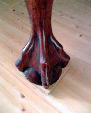 Detail of a clawball foot from an antique cabinet